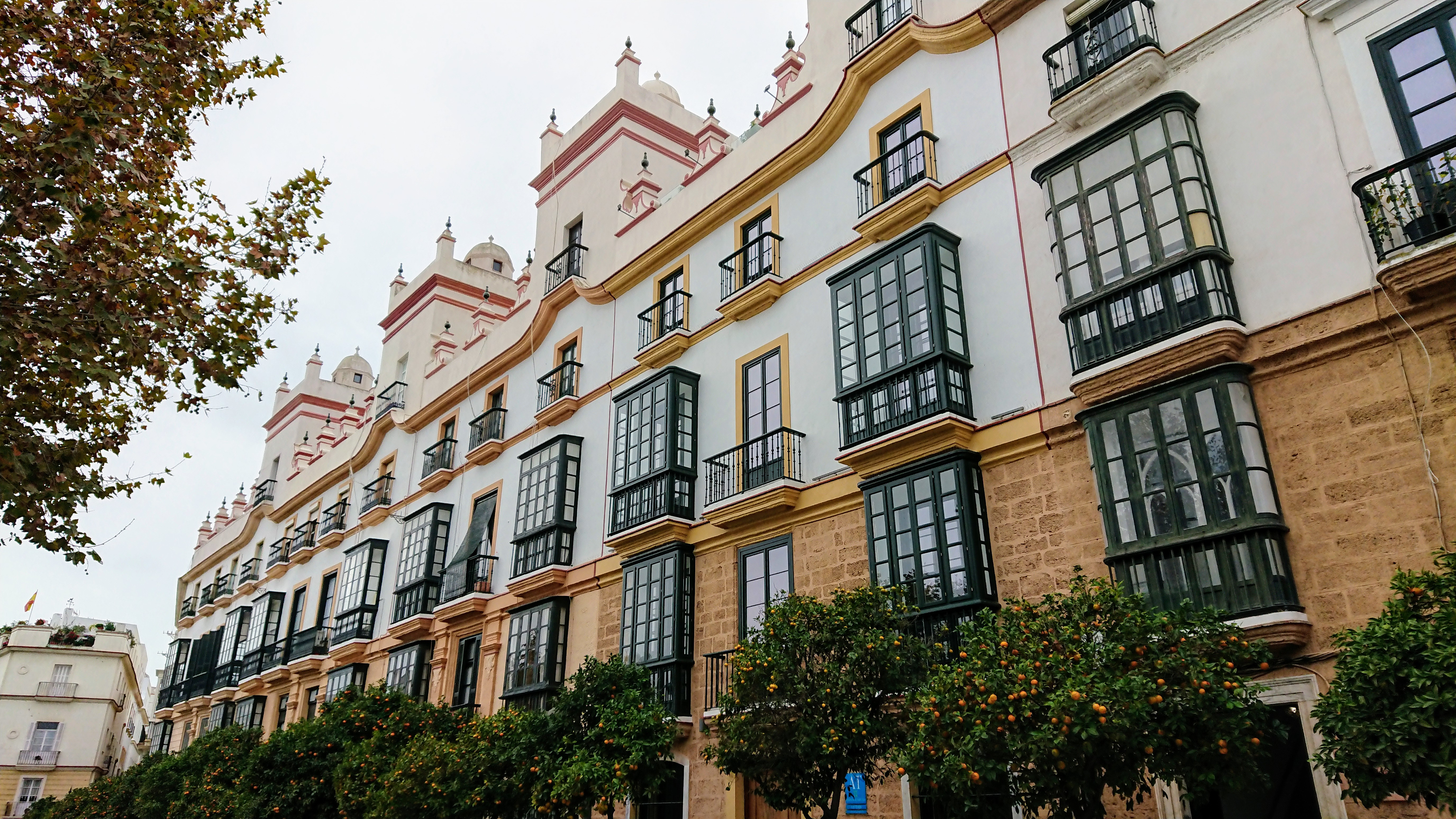 Casa de las 5 Torres, Cadiz (Spain)